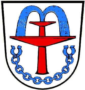 Coat of Arms of Bad Füssing